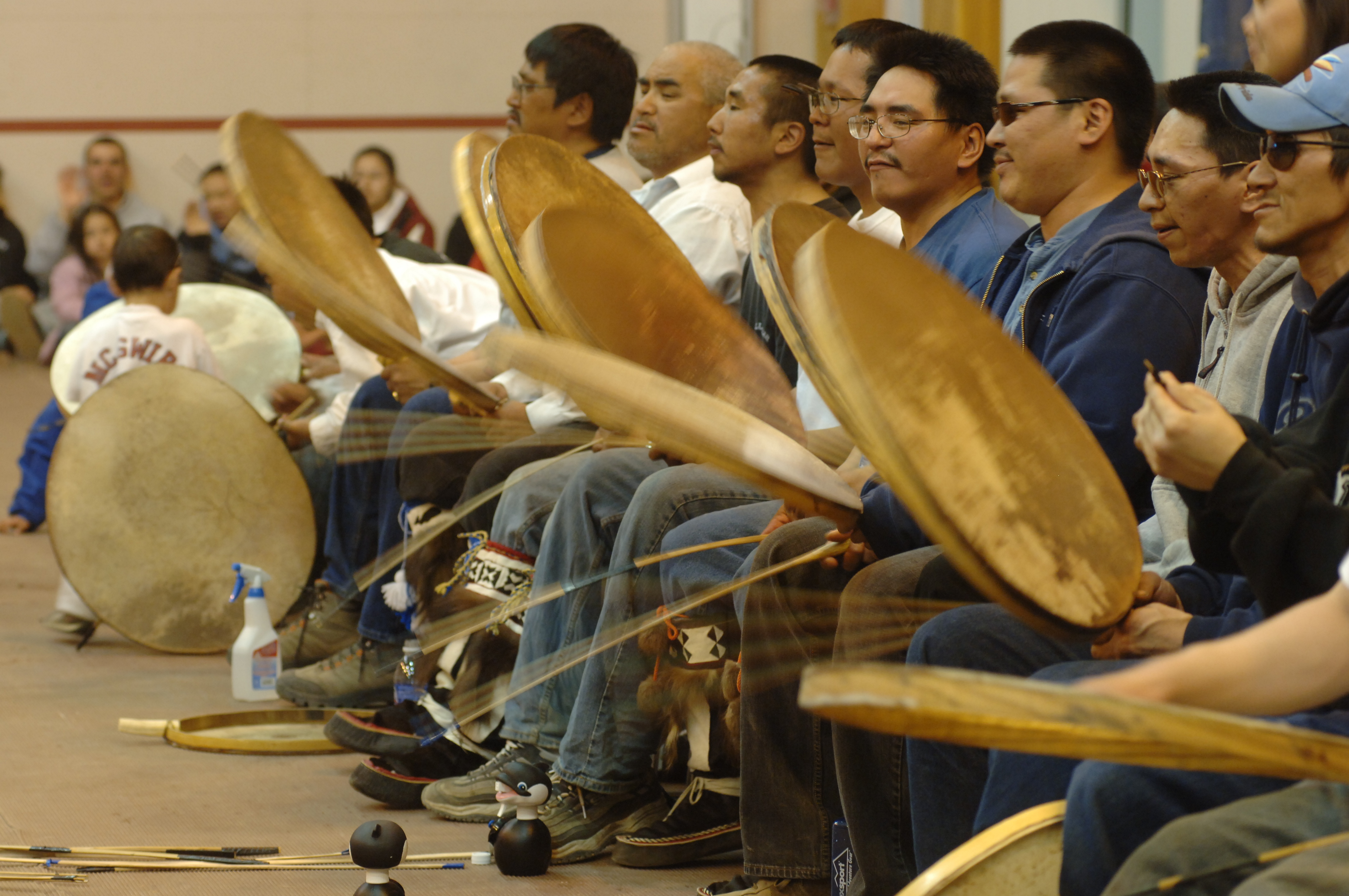 Inupiat drummers at Eskimo Dance in Barrow, AK